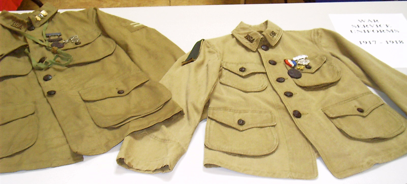 Two Scouting uniforms from 1917-1918